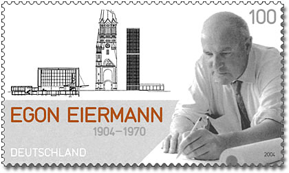 Stamp from Deutsche Post AG from 2004, 100th birthday of Egon Eiermann